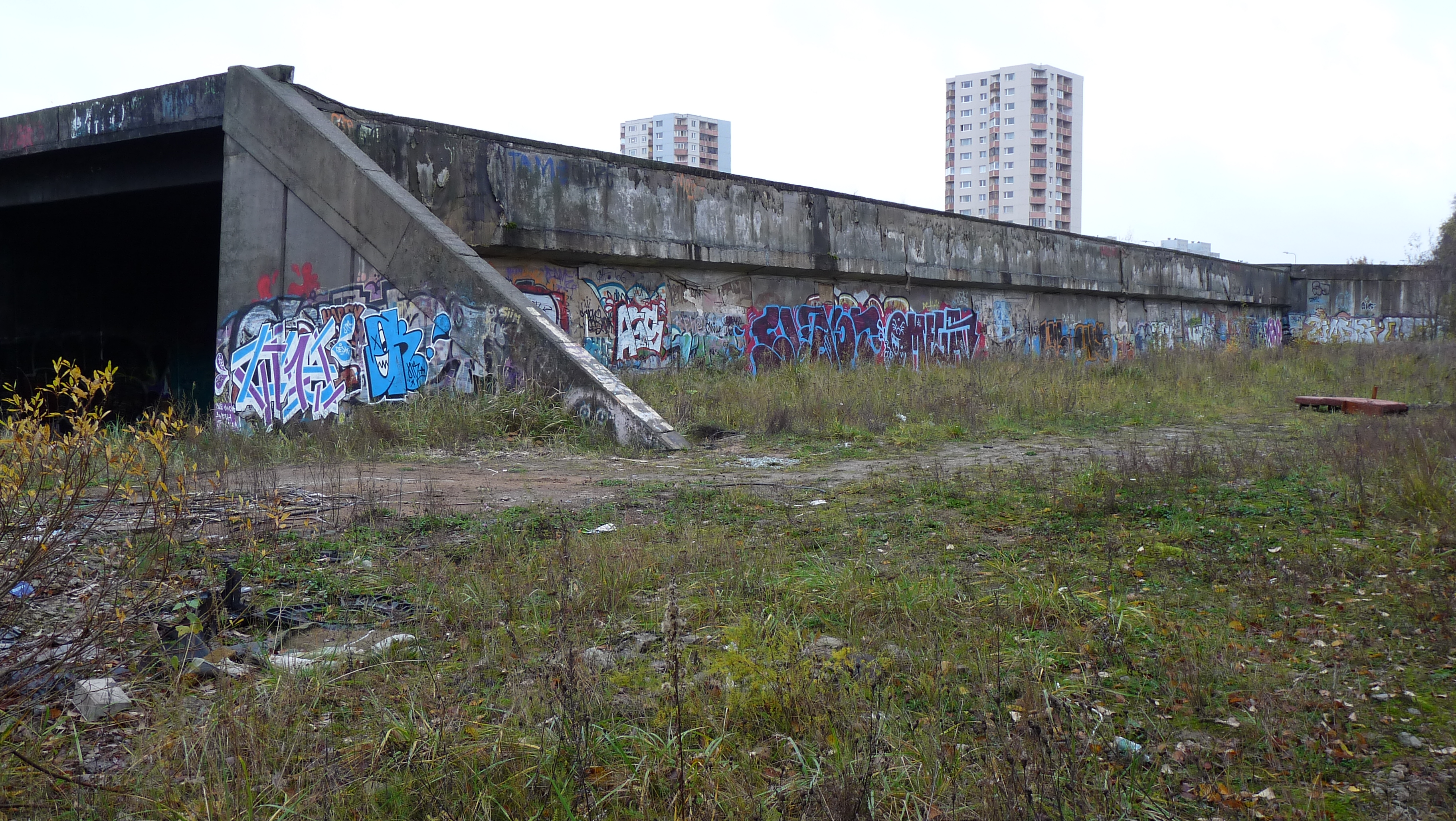 Lasnamäe tram depot in Tallinn, Estonia.